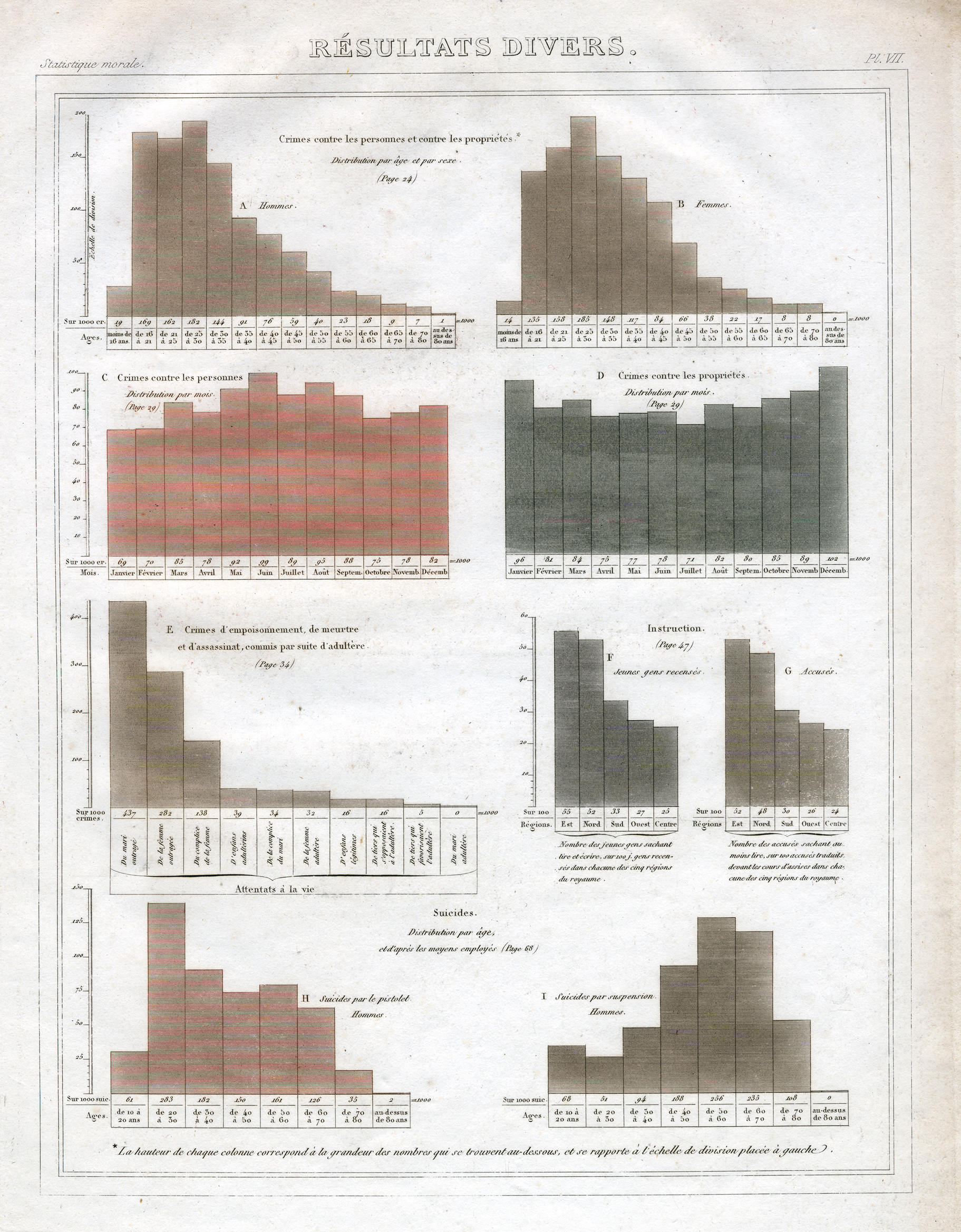 Essai sur la statistique morale de la France, Plate VII, 1833